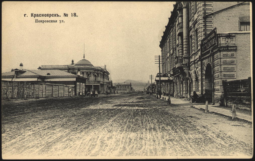 Krasnoiarsk